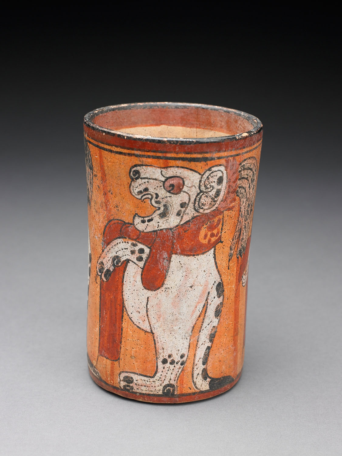 A polychrome cylinder vase originally from the Mayan culture. This side of the vessel depicts a supernatural being that looks like a jaguar wearing a red scarf.